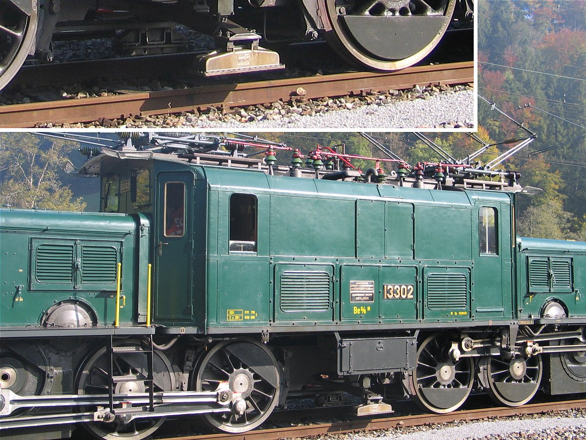 Integra-Signum magnet on a Be 6/8 III "Crocodile".Not to be mistaken for Crocodile